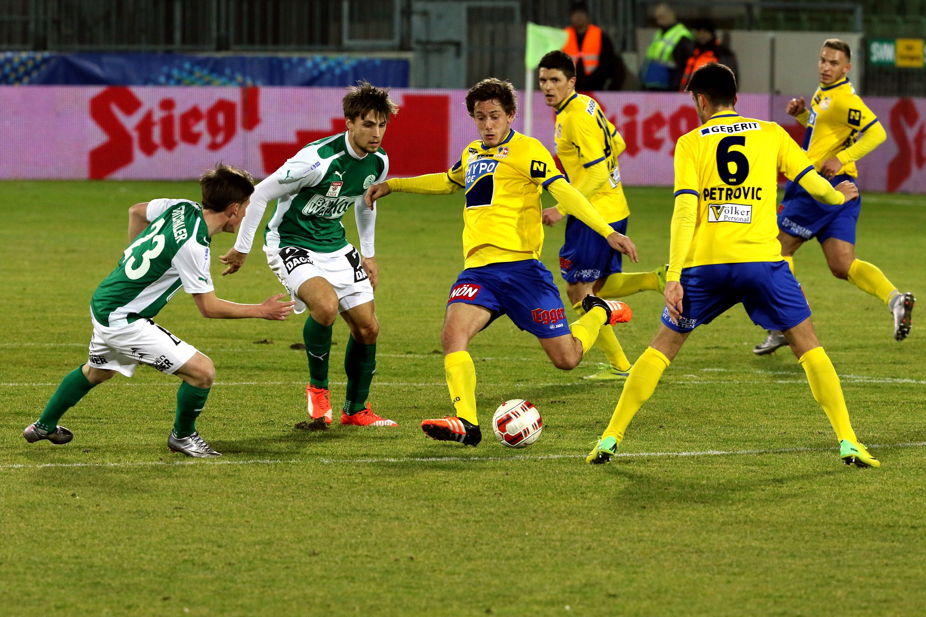 Match of the 2015–16 Austrian Cup – SV Mattersburg (green shirts) vs. SKN St. Pölten (yellow shirts) 1-2 (0-1) at 2016-02-09 in Pappelstadion, Mattersburg – The photo shows from left to right: Julius Ertlthaler, Thorsten Mahrer, Michael Ambichl, Manuel Hartl, Daniel Petrovic and Bernd Gschweidl.